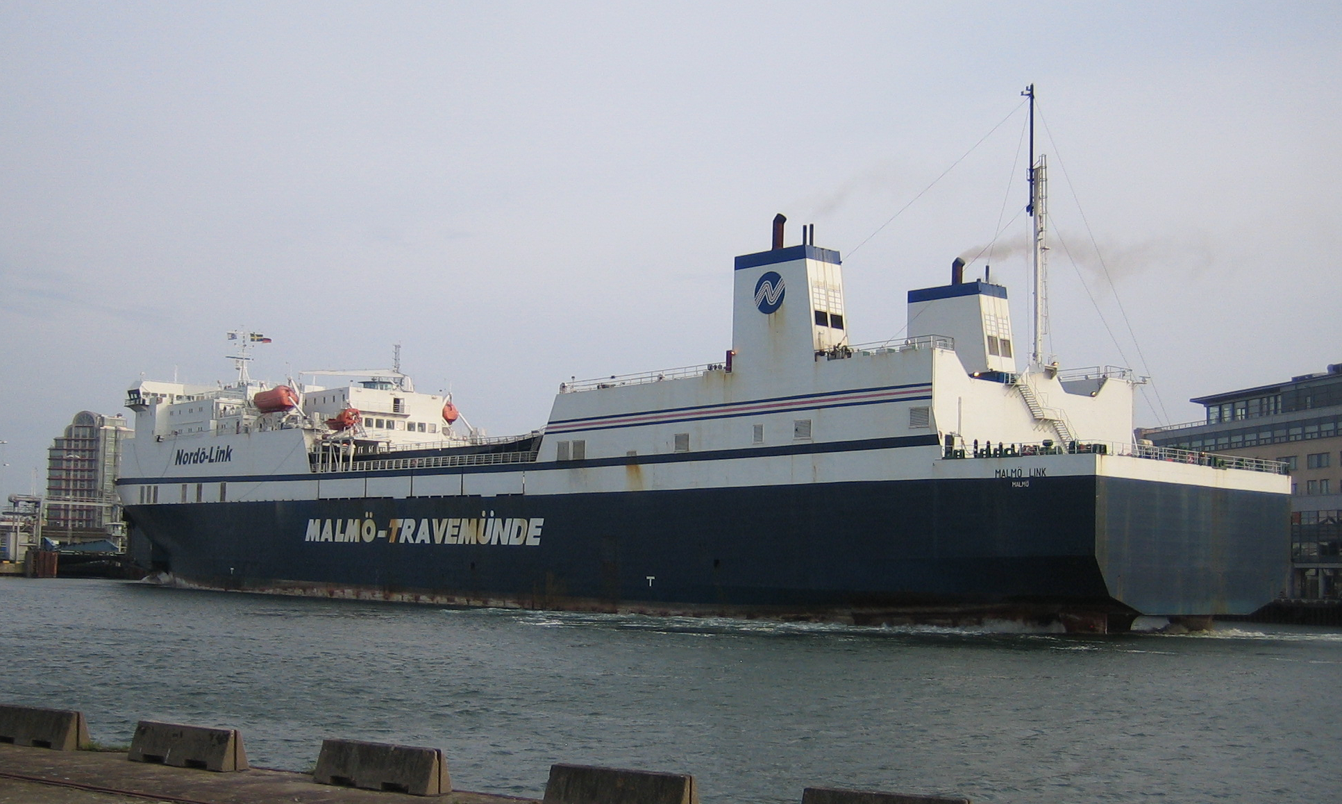 M/S Malmö Link, ship owned by Nordö Link